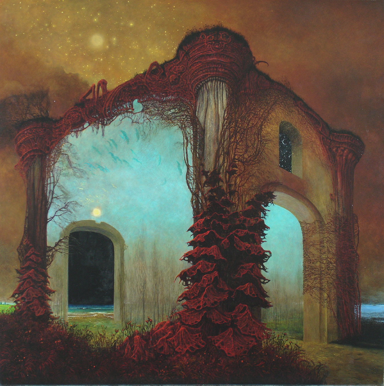 Painting entitled: AA78, year 1978, 87 x 87 cm oil on beaverboard, inventory no. MHS/S/2249